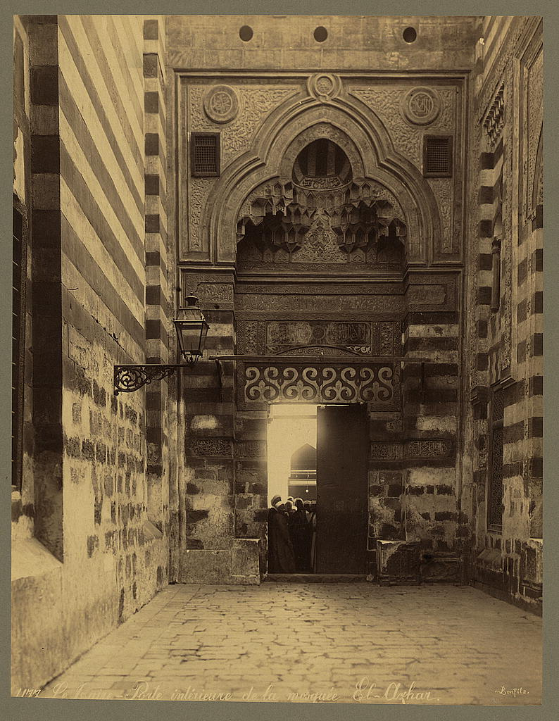 Title: Le Caire. Porte intérieure de la mosquée el-Azhar / Bonfils. Abstract/medium: 1 photographic print : albumen.